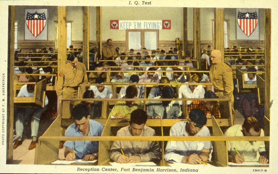 I.Q. Test